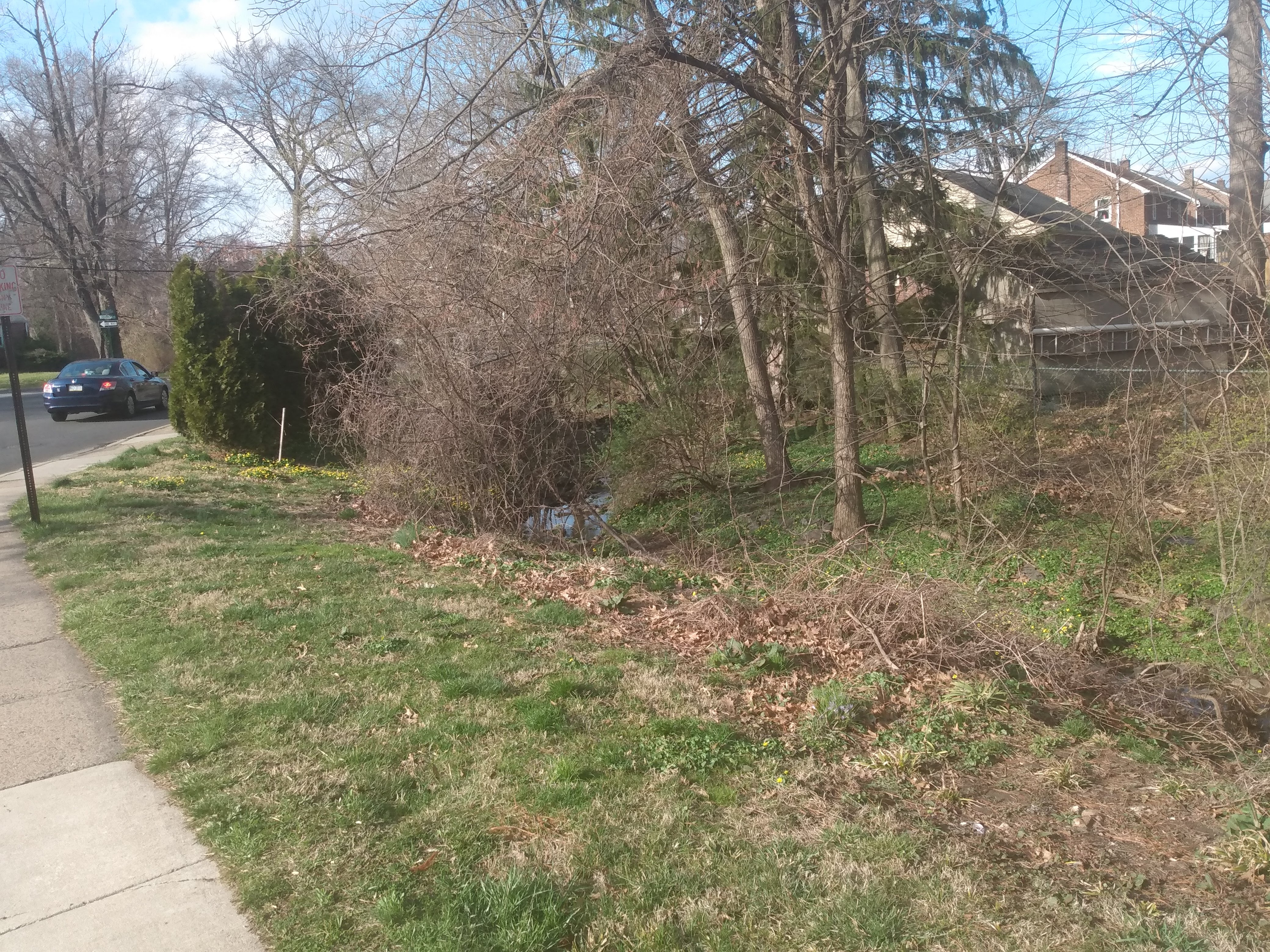 Naylor's Run in Haverford Township